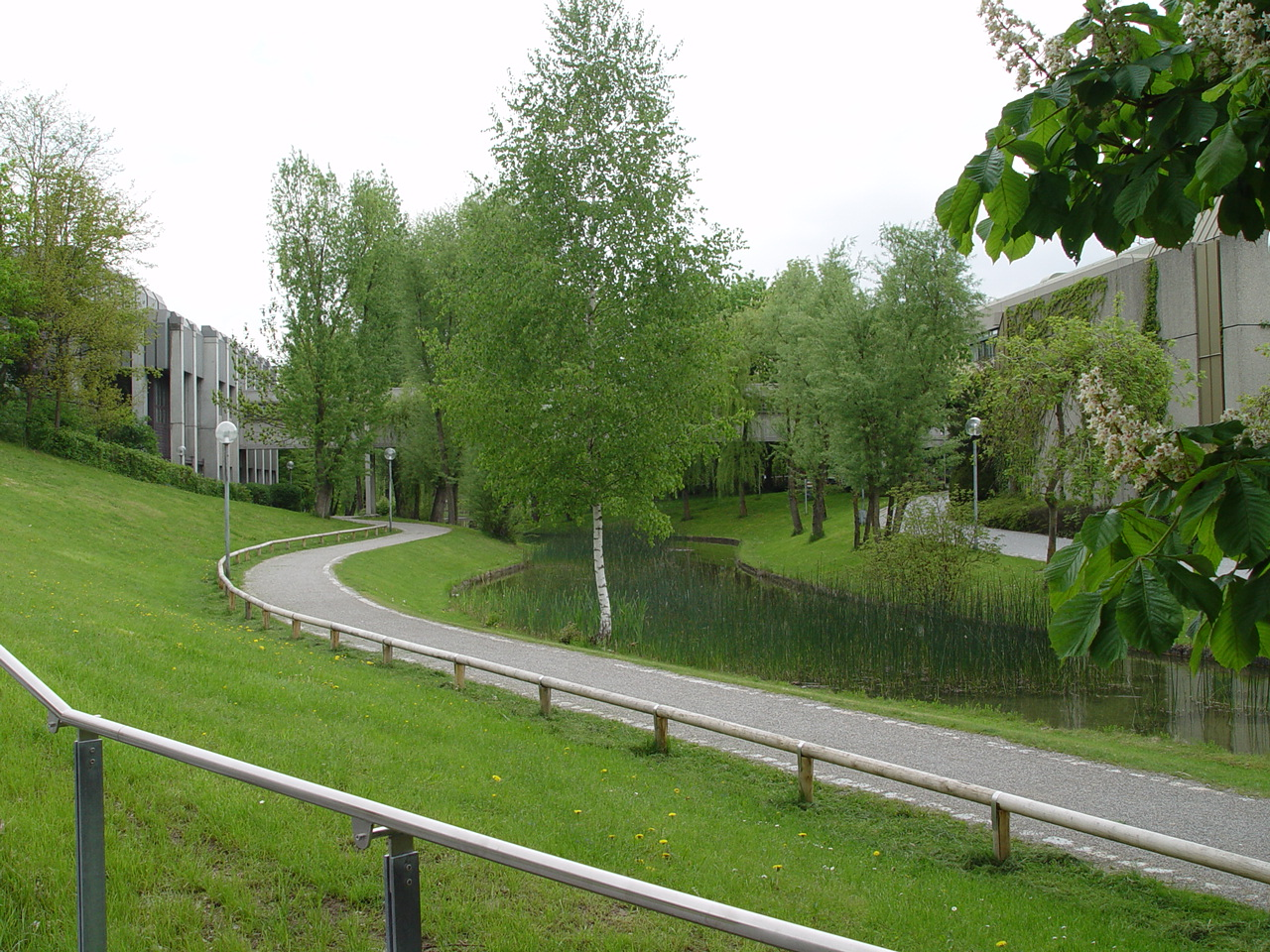 A picture of the campus of the University of Augsburg. It is a free image which was uploaded to the German Wikipedia before the phase-out of local image uploads on that site. The original description page is found :de:Bild:Campus uni augsburg.JPG here, where it is indicated that the picture was taken by the uploader and was released under the GFDL with no restrictions.